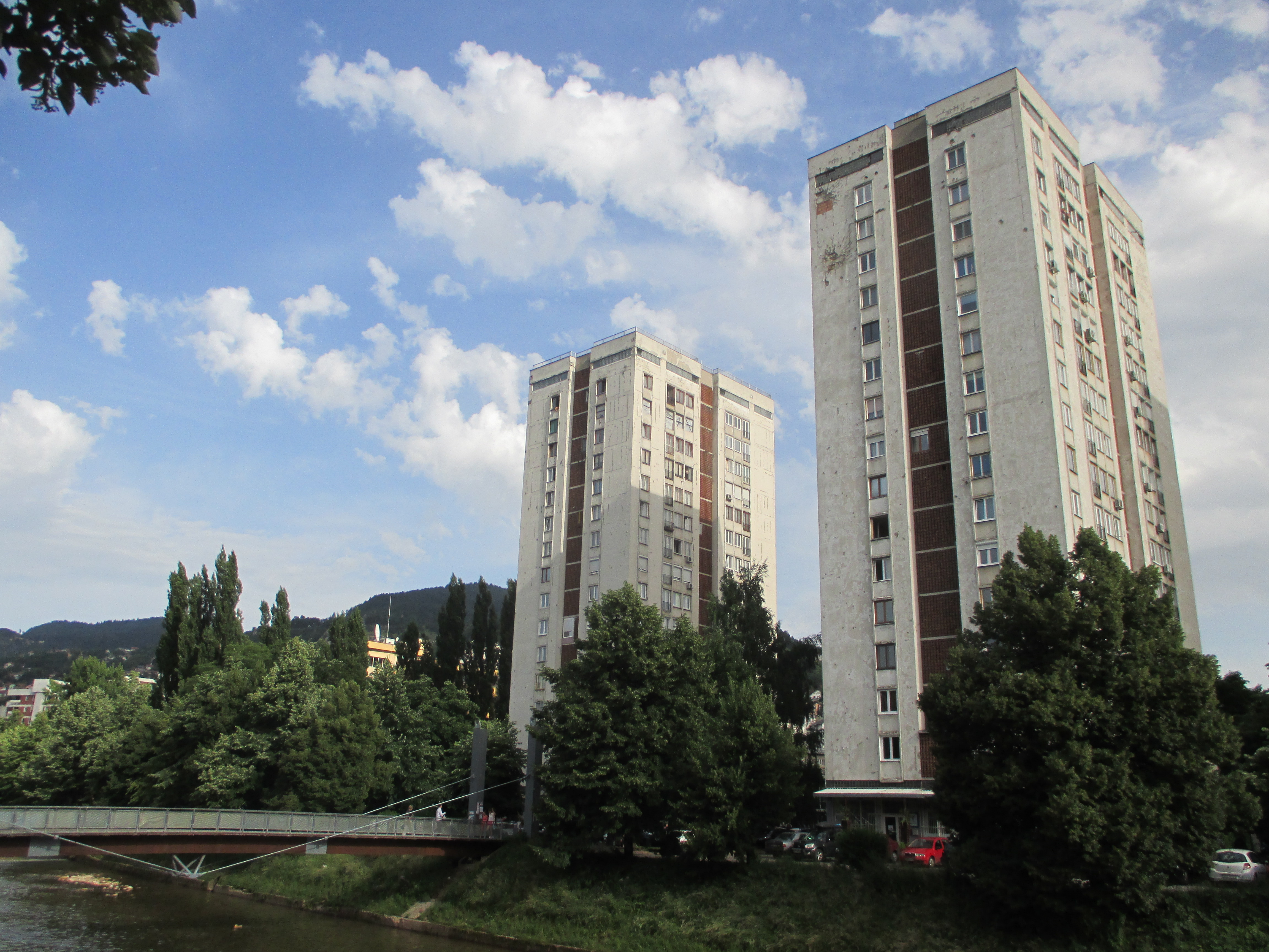 Residential high-rise buildings on the side of the Miljacka river in Grbavica (Sarajevo)